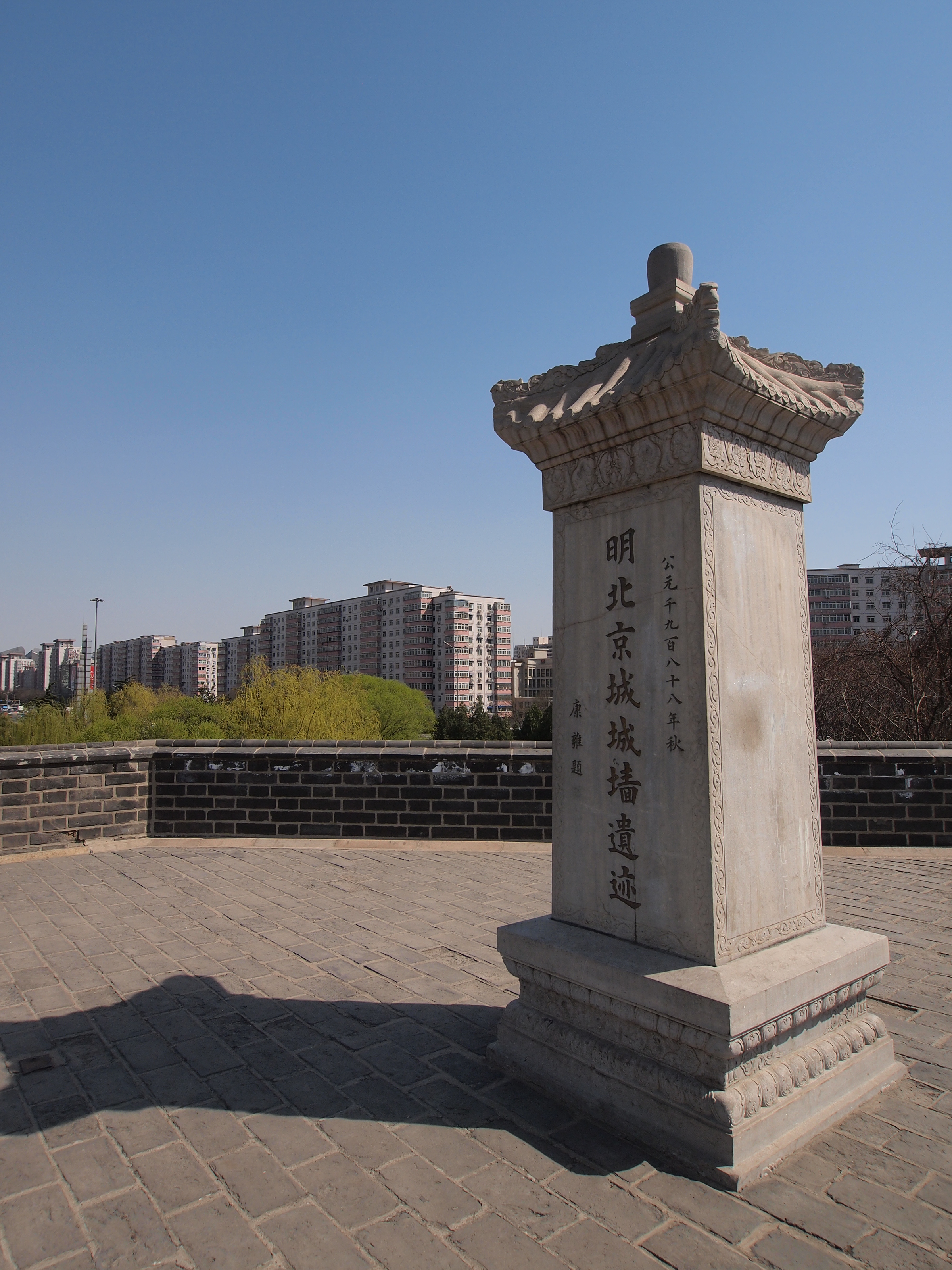 明北京城城墙遗迹 - Ming Dynasty Beijing Wall Relics - 2012.04